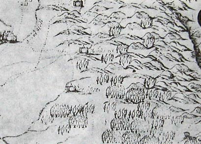 Stichova mapa